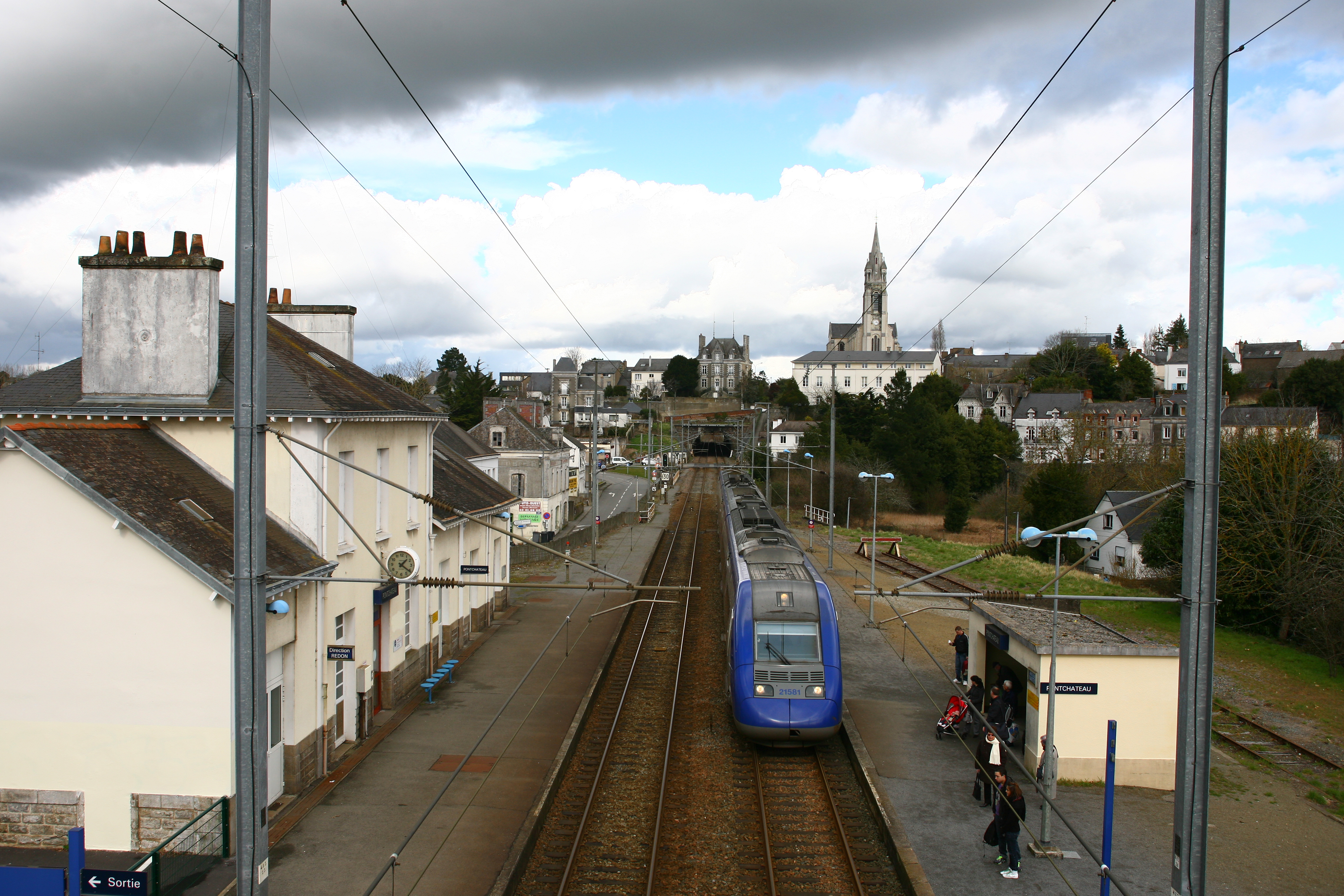 Pont-Château train station